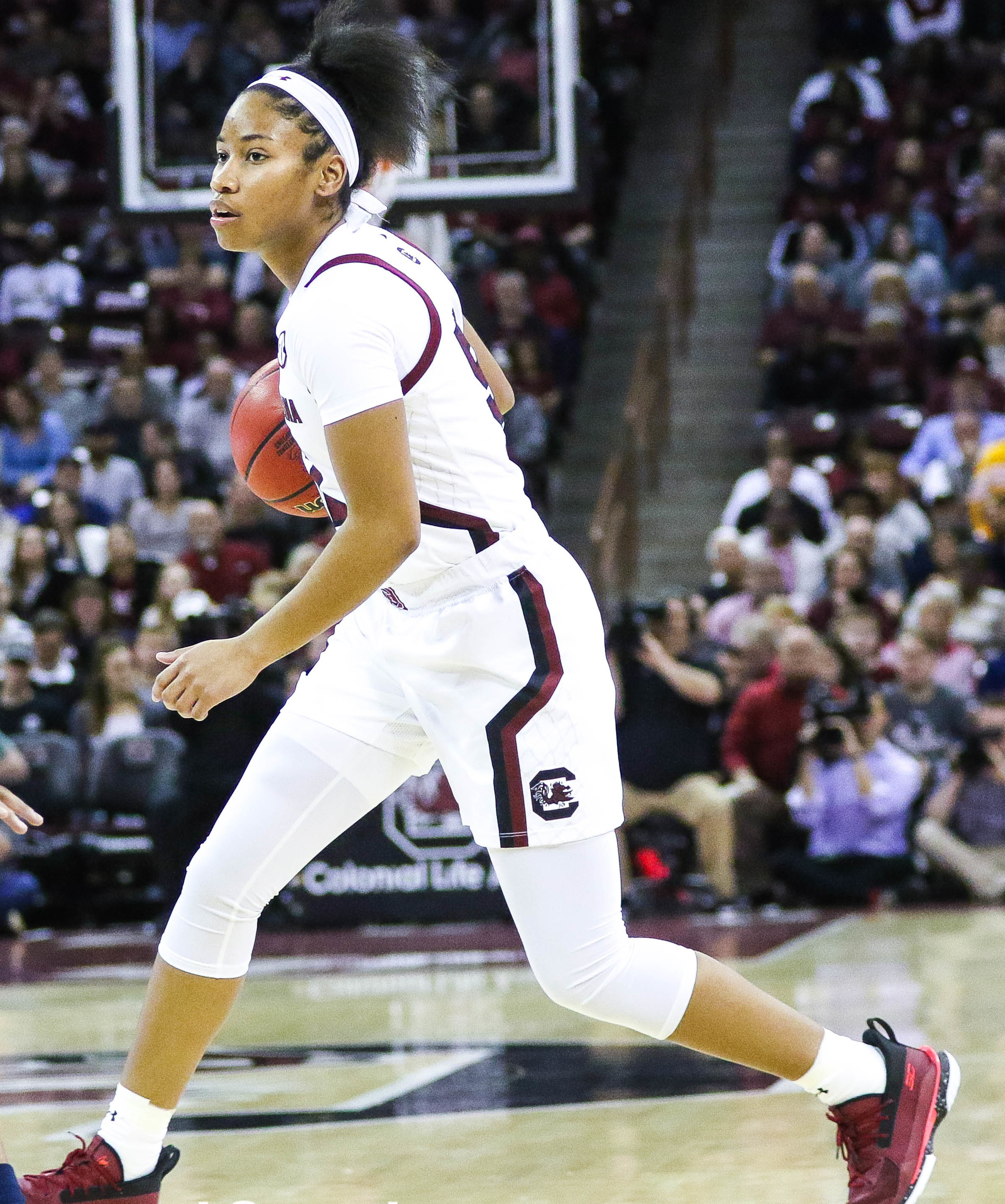 Photo by Katie Dugan